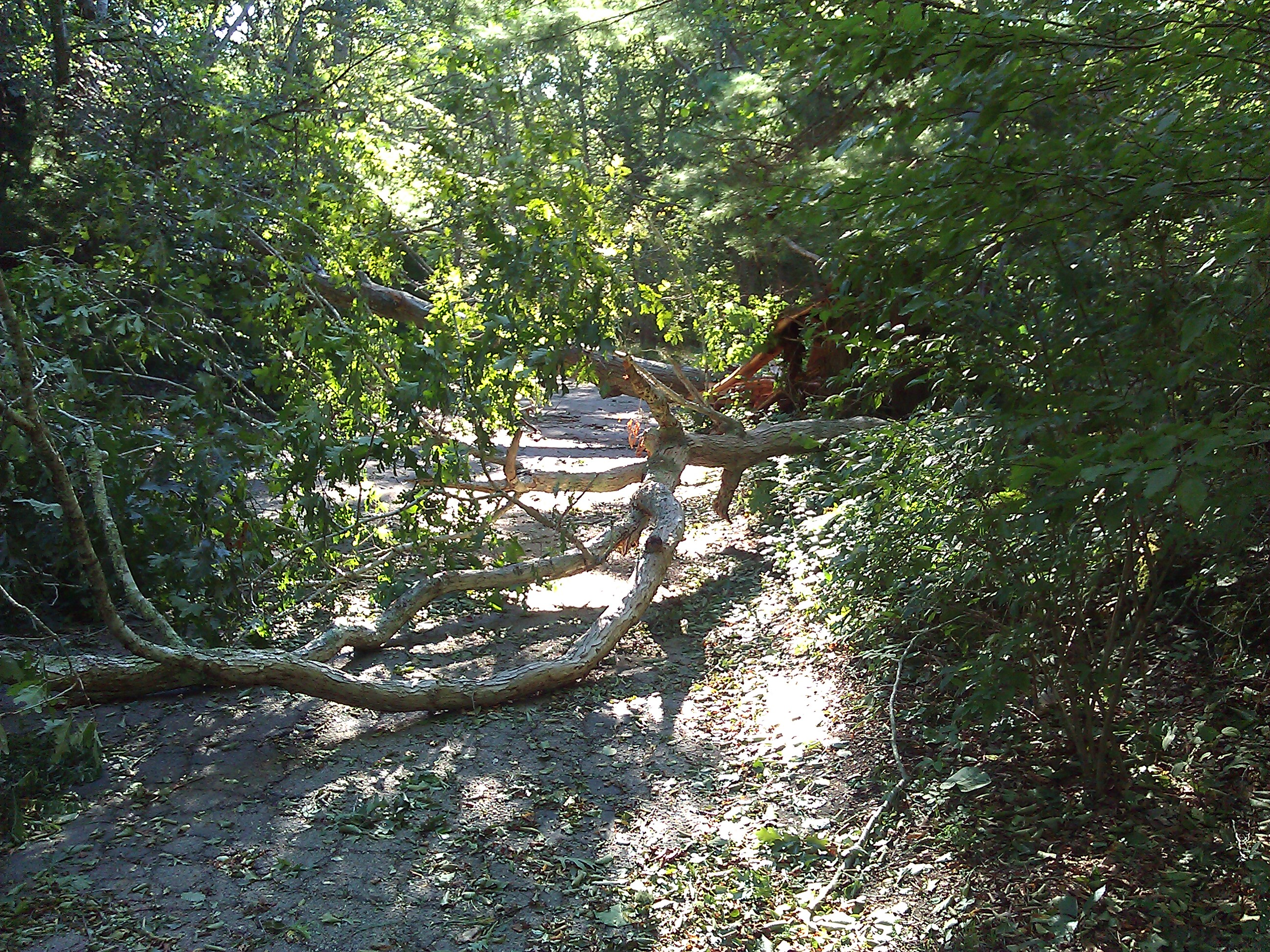 Two trees toppled by Hurricane Irene in coastal Massachusetts. Uploaded by Fowler&fowler«Talk» 22:53, 29 August 2011 (UTC)